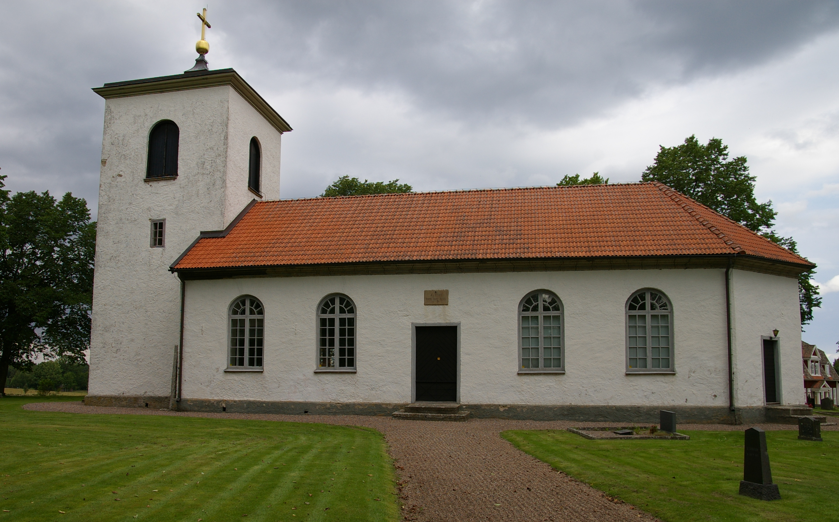 Ullene kyrka (Swedish:Church of Ullene) in Västergötland, Sweden.